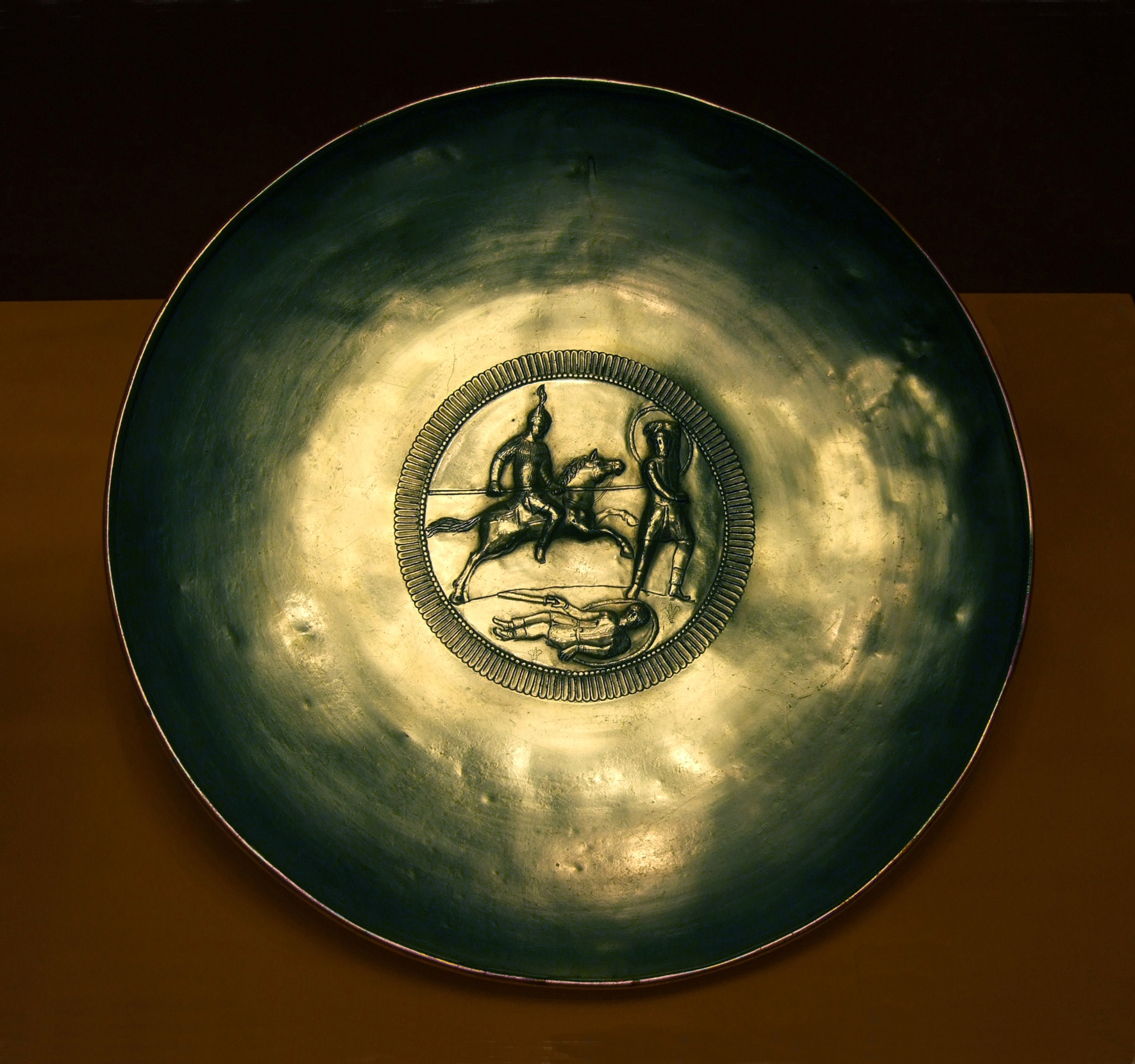 Dish from Isola Rizza (copy) Isola Rizza, Province of Verona, Italy The silver dish is part of a treasure hoard discovered in the vicinity of the parish church of Isola Rizza by a local resident working in his field in the winter of 1873. The treasure consisted originally of this dish, six silver spoons, two disk fibulae of gold and silver with filigree mountings, one belt clasp, and three belt fittings of gold. The belt clasp and one belt fitting are now lost. The dish shows in a framed base medallion a horseman charging in from the left, armed with a Spangenhelm, lamellar armor, and lance, and who is spearing a footman warrior with his lance. He is leaping with his horse over a fallen warrior who is likewise outfitted with shield and spatha. The two foot warriors are frequently characterized as Lombards on the basis of their outfits and the type of their weaponry as well as their beards. The horseman, on the other hand, is frequently described as as Byzantine mounted soldier. Photographed while on display from 22 August 2008 to 11 January 2009 in the exhibition "Die Langobarden. Das Ende der Völkerwanderung" at the Rheinisches LandesMuseum Bonn. The original is held at the Museo di Castelvecchio, Verona, Italy; this copy is held at the Römisch-Germanisches Zentralmuseum, Mainz, Germany